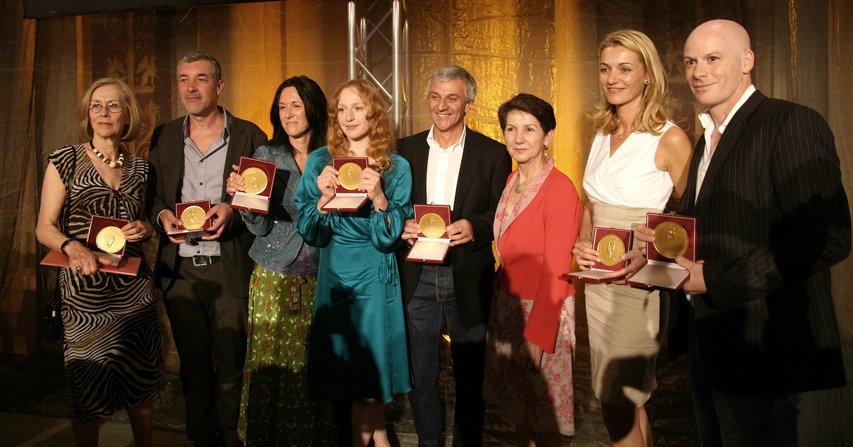 Winners of the 43. Fernsehpreis der Österreichischen Erwachsenenbildung at the Budget Hall of the Austrian Parliament Building in Vienna.